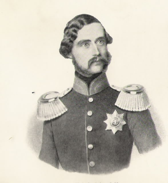 Frederick William of Hesse-Kassel (1820-1884)